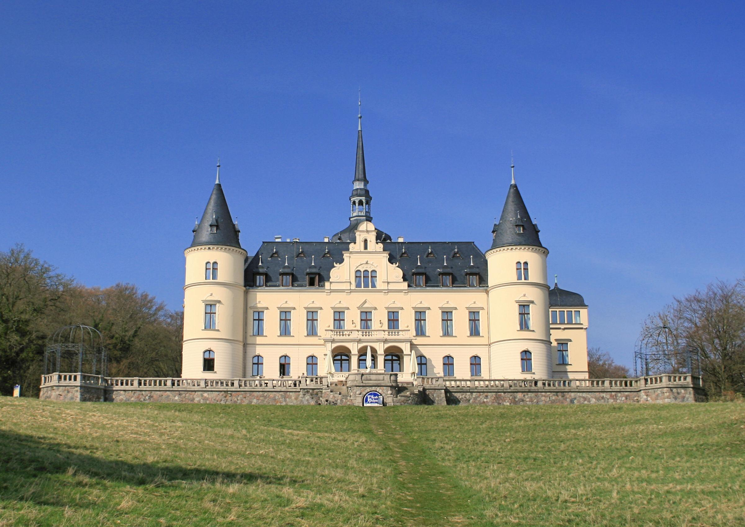 Ralswiek Castle, Rugia Island, Western Pomerania, Germany. Built 1893–1896.